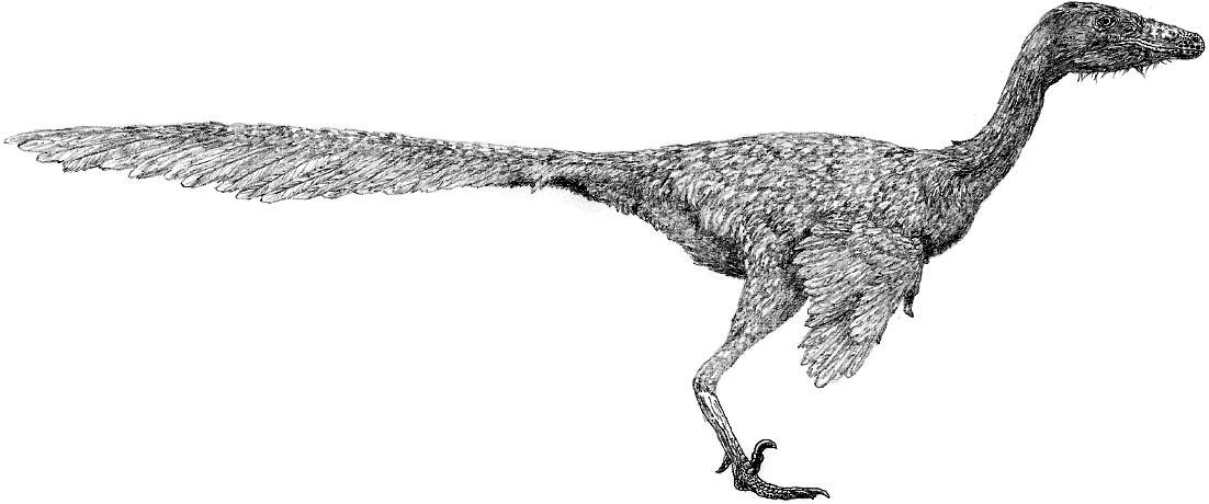 Life restoration of troodontid dinosaur Talos sampsoni (UMNH VP 19479) from the late Cretaceous Kaiparowits Formation of Utah.